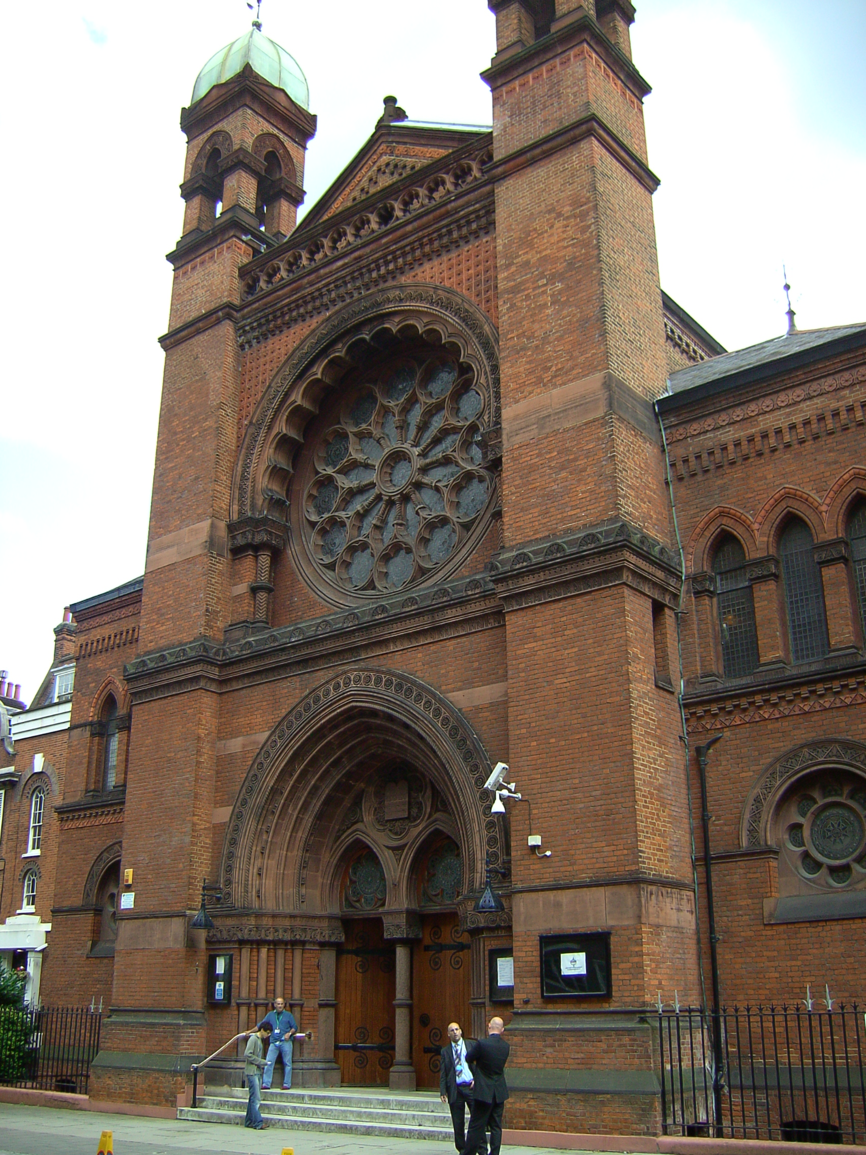 New West End Synagogue, Bayswater, London